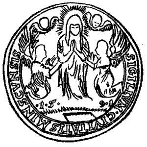 Miensk Stamp (1591)